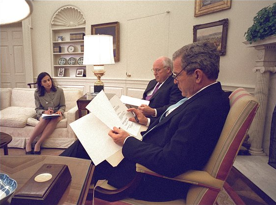 White House personnel chief Dina Powell looking at papers in the Oval Office with President George W. Bush and Vice President Dick Cheney.